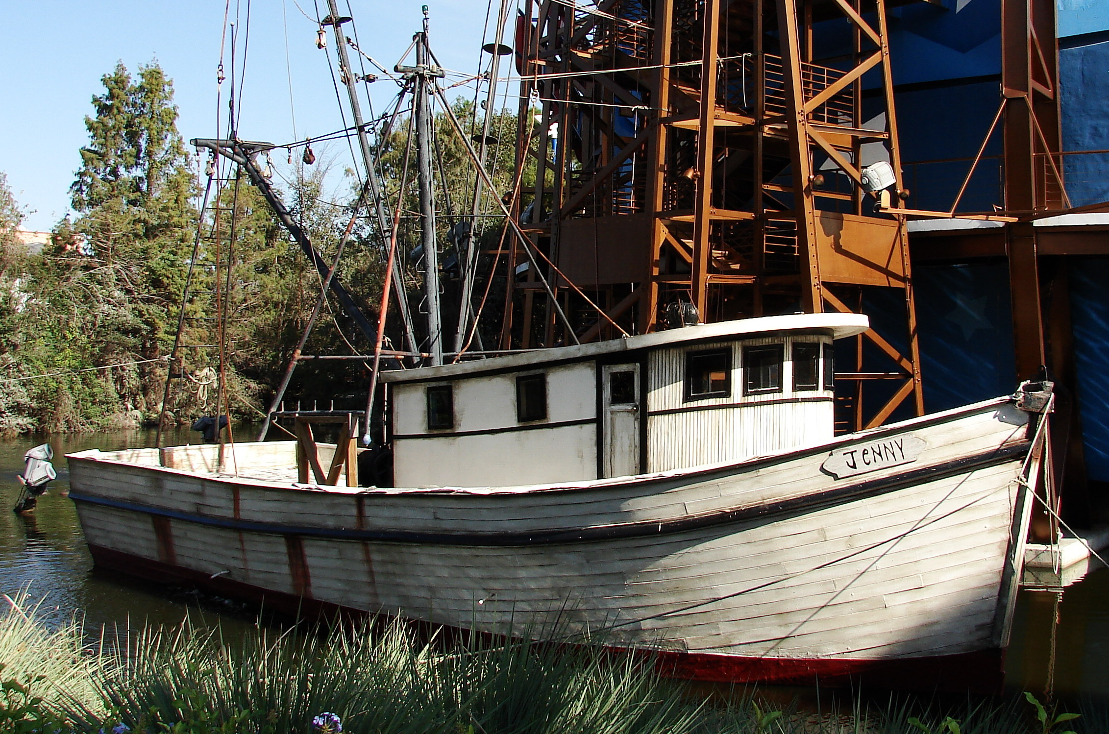 The Jenny shrimping boat from the film Forrest Gump, at the Planet Hollywood restaurant at Downtown Disney in Orlando, Florida.